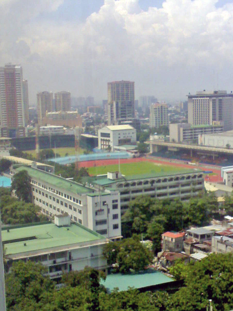 The Saint Joseph and William Halls of De La Salle University-Manila